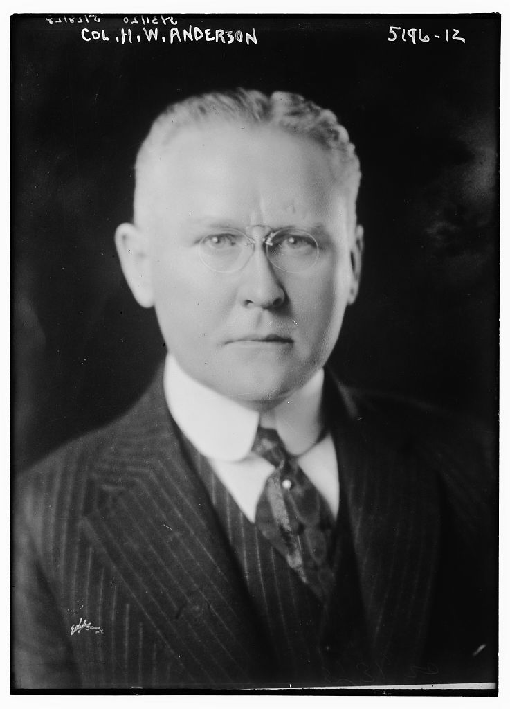 Colonel Henry Watkins Anderson circa 1915